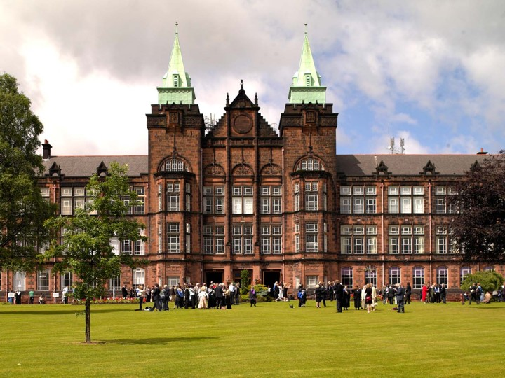 Jordanhill Campus, Strathclyde University